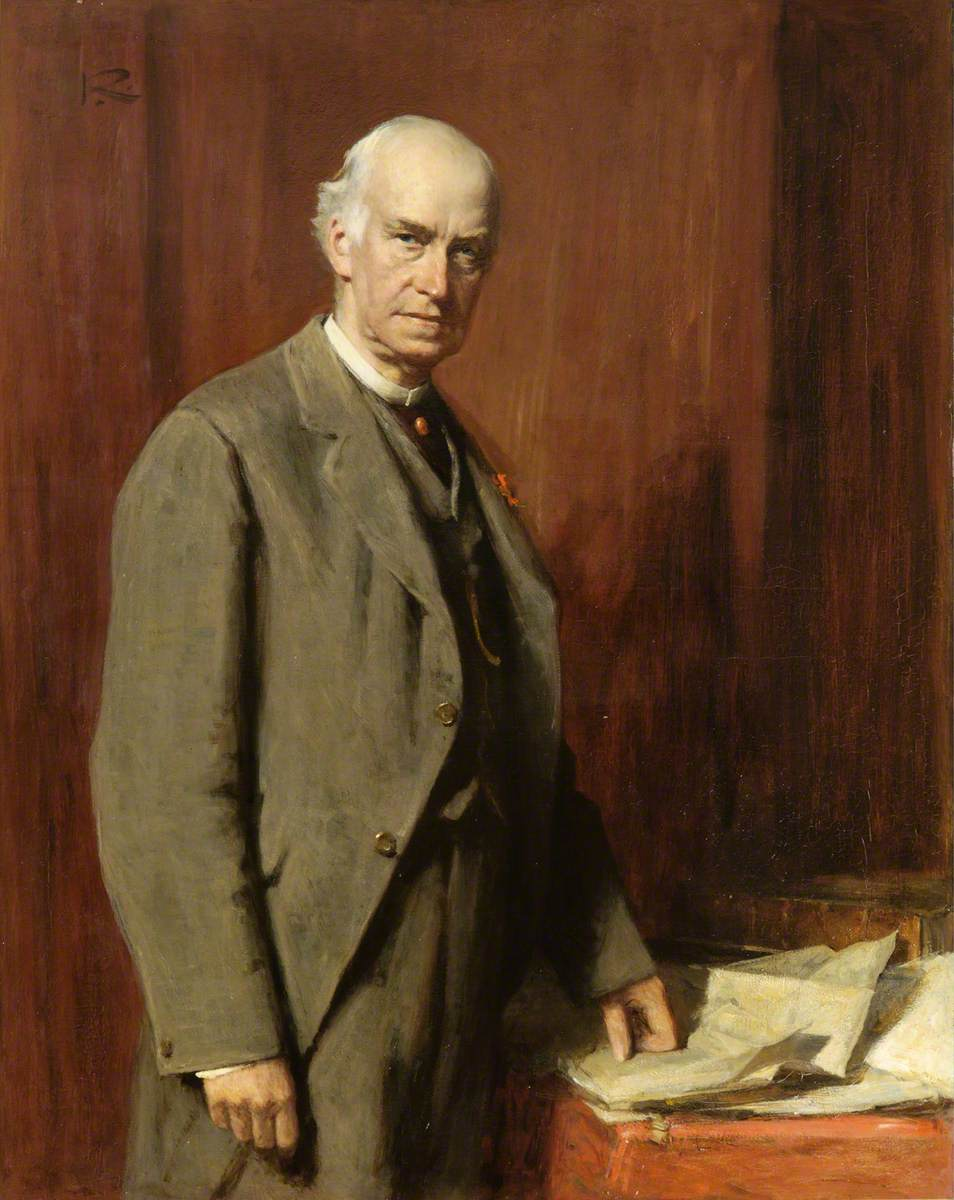 Alexander Forbes Irvine, 20th of Drum [1818-1892], three-quarter-length, in a grey suit